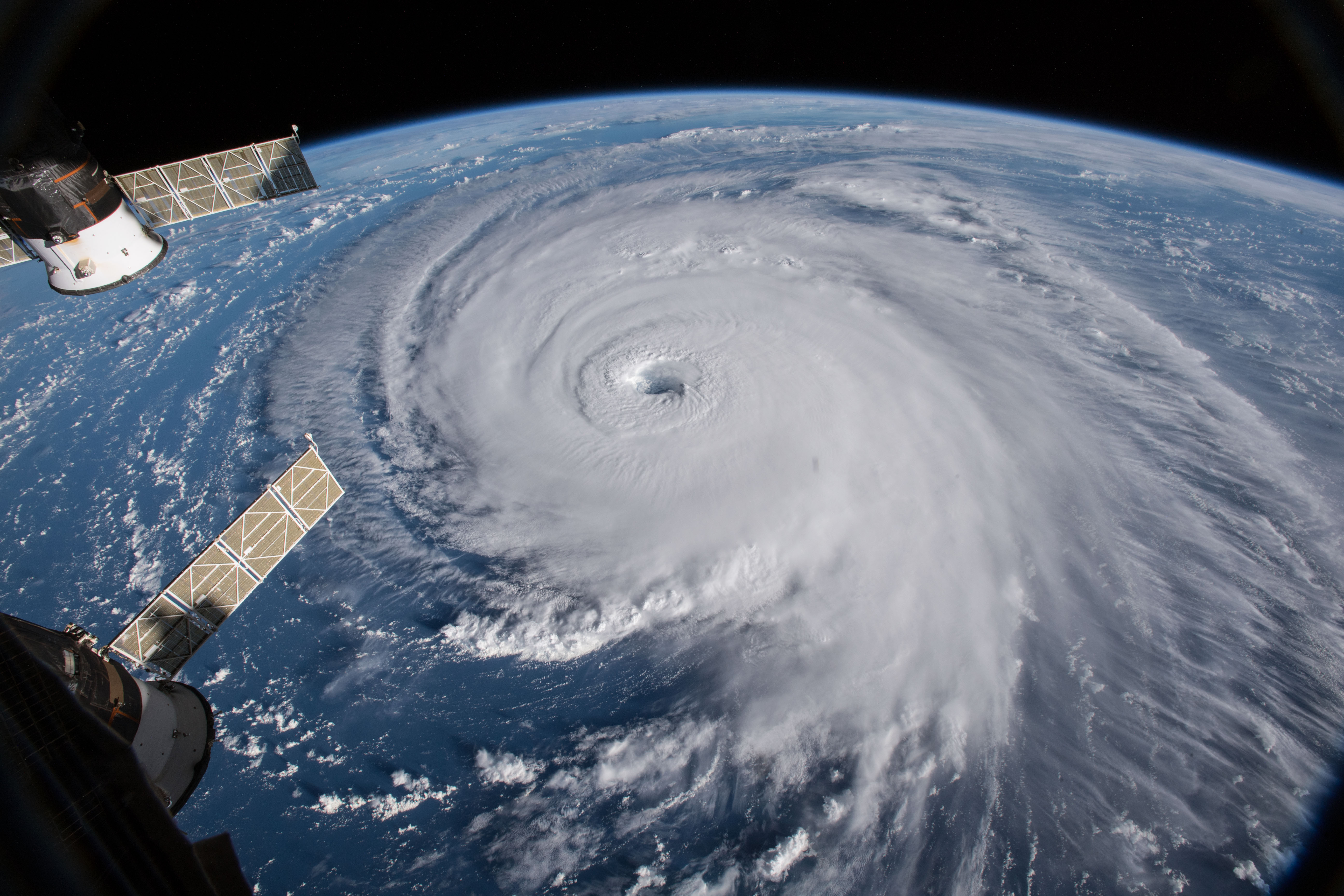 Hurricane Florence iss056e162175 (Sept. 12, 2018) --- Cameras outside the International Space Station captured a stark and sobering view of Hurricane Florence the morning of Sept. 12 as it churned across the Atlantic in a west-northwesterly direction with winds of 130 miles an hour. The National Hurricane Center forecasts additional strengthening for Florence before it reaches the coastline of North Carolina and South Carolina early Friday, Sept. 14. NASA image use policy NASA Goddard Space Flight Center enables NASA’s mission through four scientific endeavors: Earth Science, Heliophysics, Solar System Exploration, and Astrophysics. Goddard plays a leading role in NASA’s accomplishments by contributing compelling scientific knowledge to advance the Agency’s mission. Follow us on Twitter Like us on Facebook Find us on Instagram